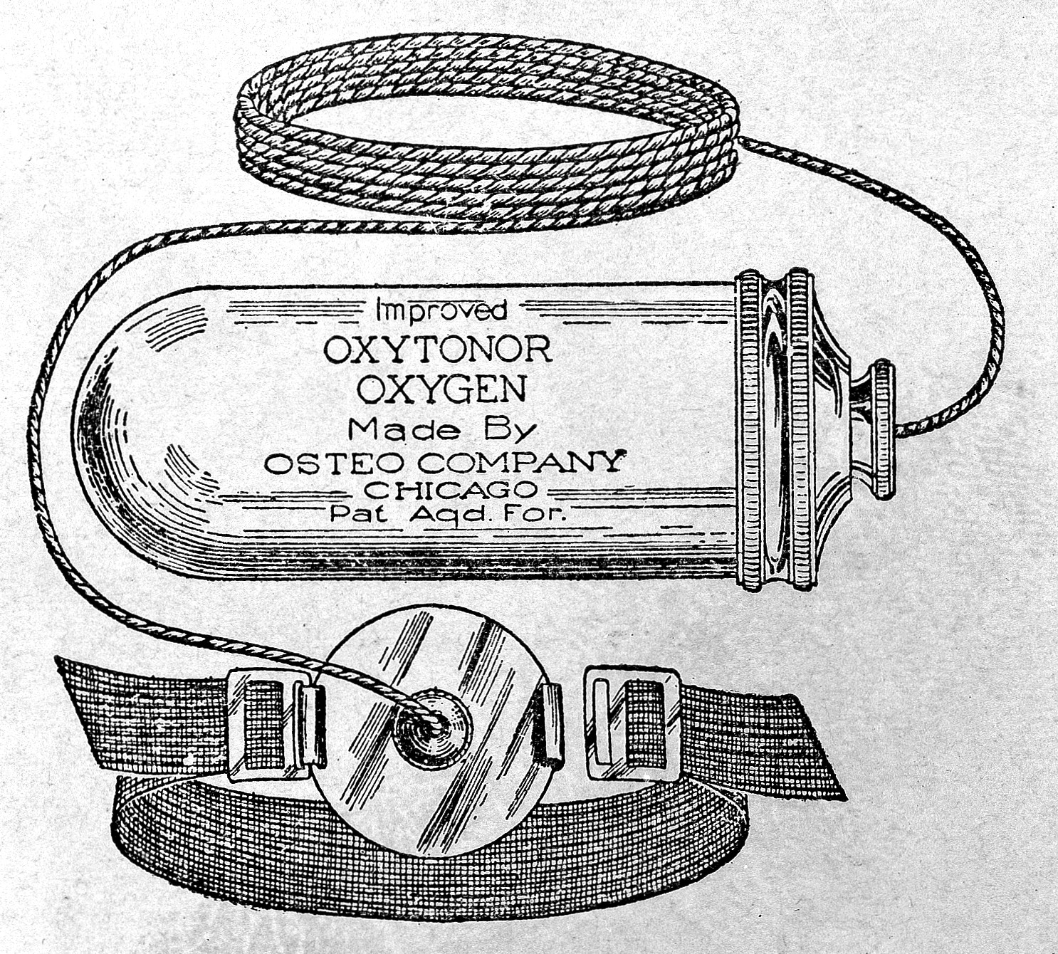 'Improved oxytonor oxygen', an apparatus for 'gas-pipe therapy', marketed in Chicago Wellcome Images Keywords: ADVERTISEMENT; gas-pipe therapy; Quackery; Advertisements